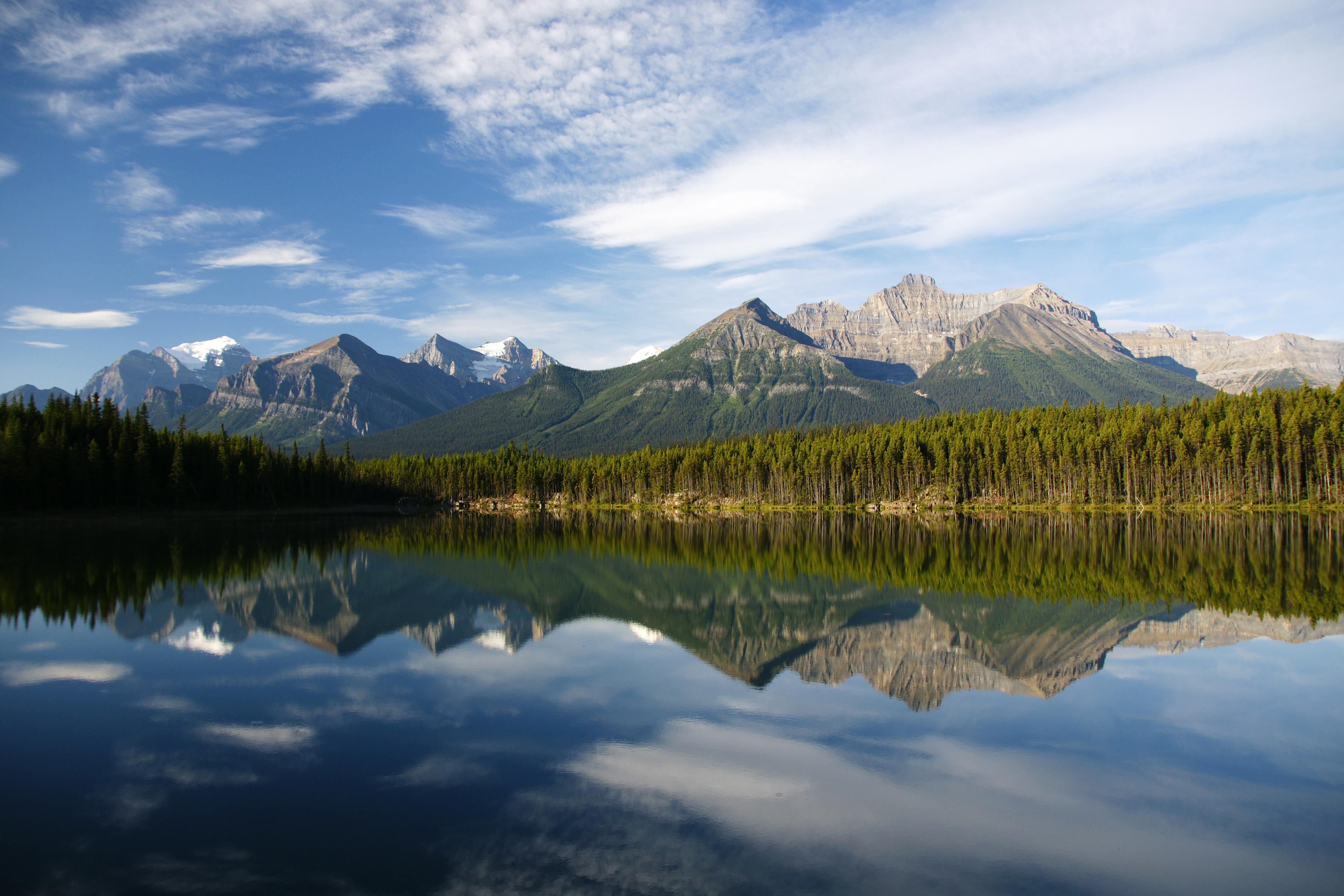 View of the Lake Herbert (early morning) from the side of the road.